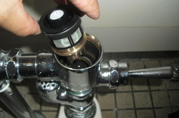 Piston valve